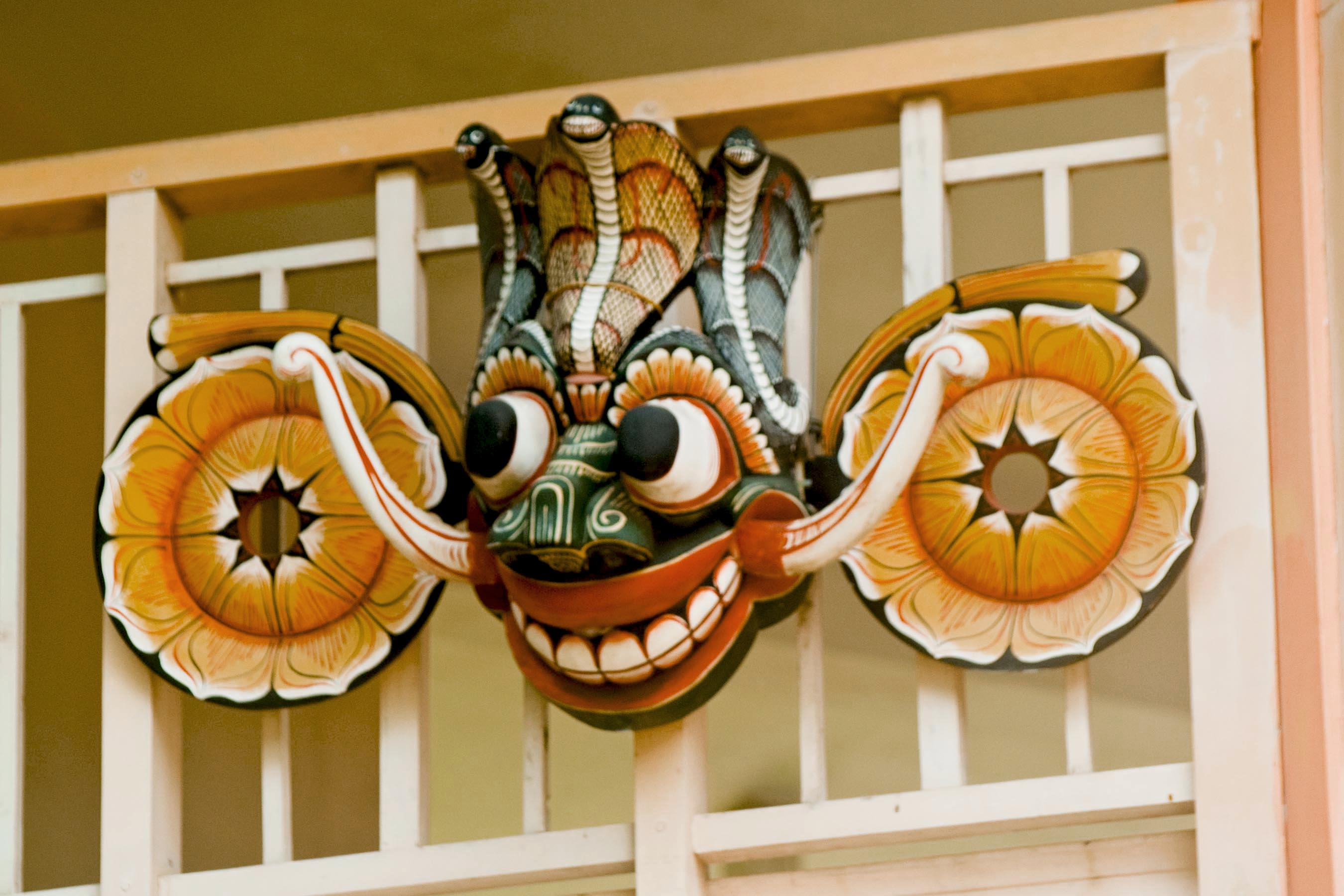 Devil Mask - Aida, Bentota, Sri Lanka